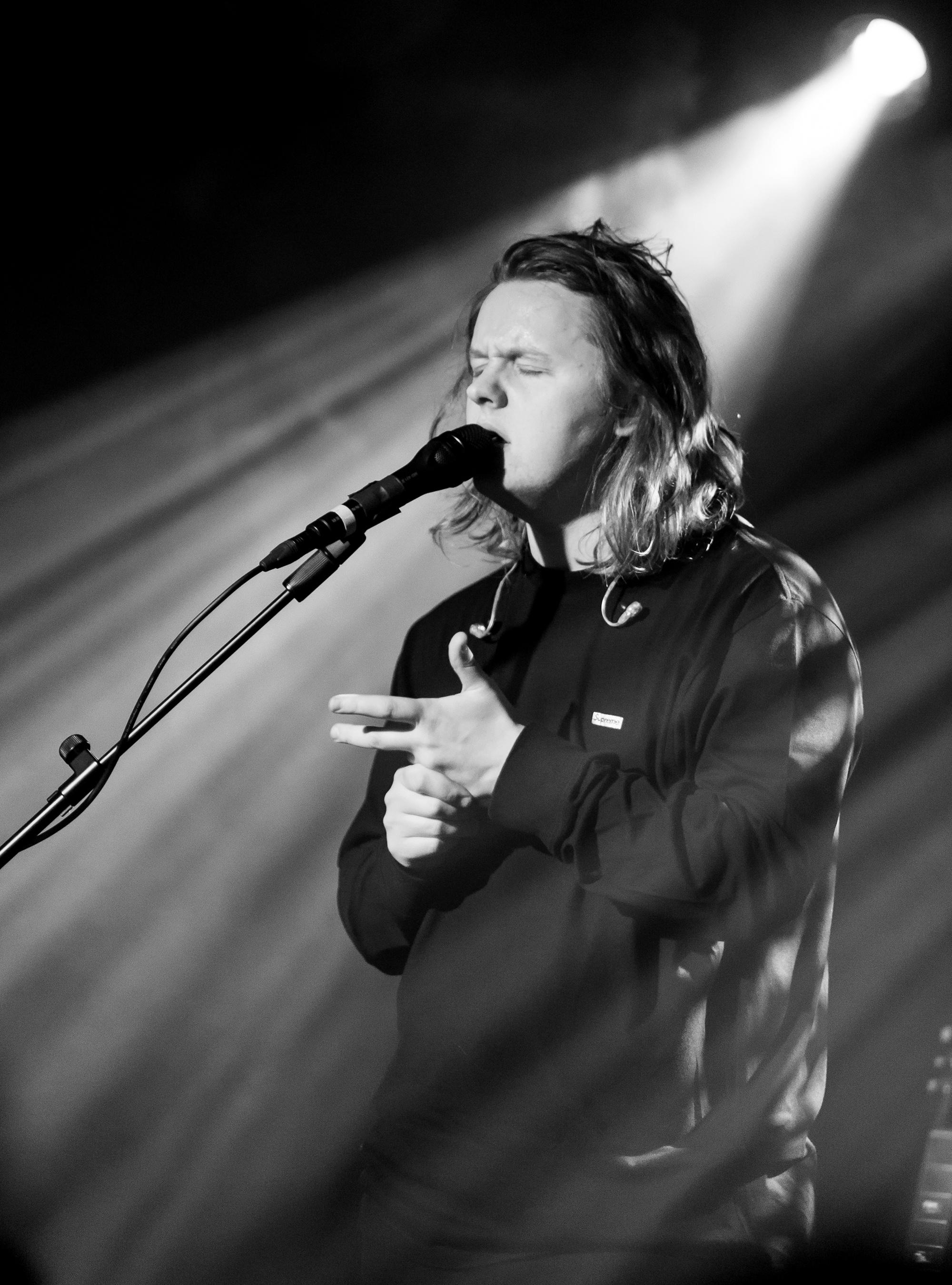 Lewis Capaldi performing live at the Moroccan Lounge in Los Angeles, California, on Friday, January 5, 2018.